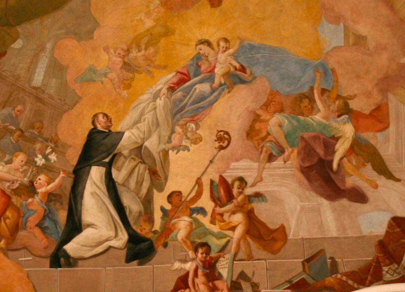 The Virgin Mary hands St. Alberich (not Robert) of Cîteaux the Cistercian habit. This event, known as the Descensio BMV in Cistercium, is found in the Cistercian liturgical calendar on Aug. 5th.